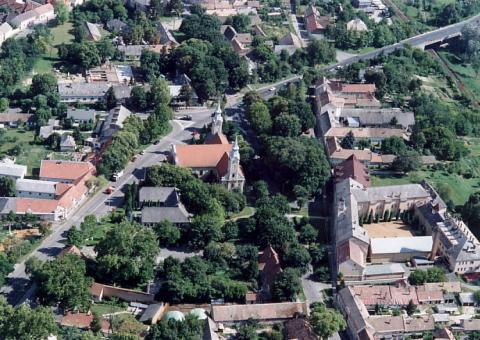 Dombóvár, Hungary, aerialphotgraphy This is a photo of a monument in Hungary, Identifier: 8593